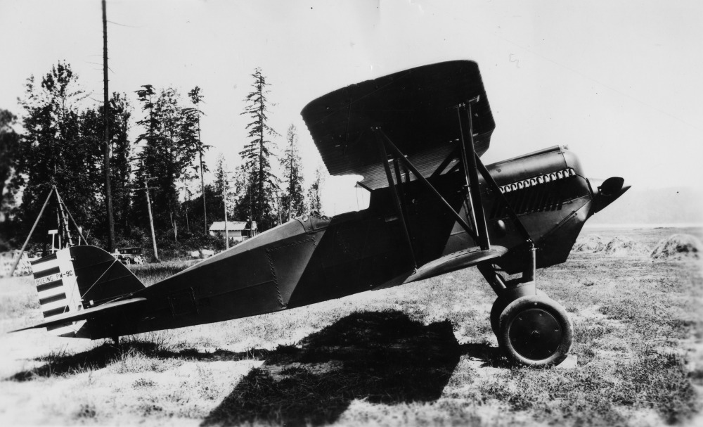 PictionID:41899860 - Title:Ray Wagner Collection Image - Catalog:16_000701 Boeing PW-9C - Filename:16_000701 Boeing PW-9C.tif - - - - Ray Wagner was Archivist at the San Diego Air and Space Museum for several years and is an author of several books on aviation --- ---Please Tag these images so that the information can be permanently stored with the digital file.---Repository: San Diego Air and Space Museum